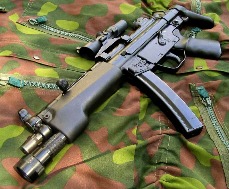 Heckler & Koch HK94k with 1.5x Compact ACOG and Surefire handguard on Finnish pattern camouflage uniform